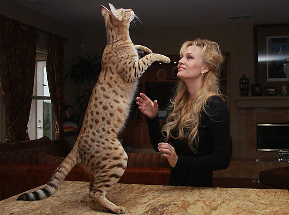 Scarlett's Magic Standing Tall